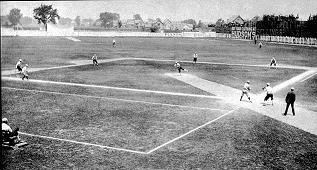 Scanned and downsized image of Detroit's Recreation Park, taken from Home Sweet Home, from the archives of The Detroit News, 1999, p.15.